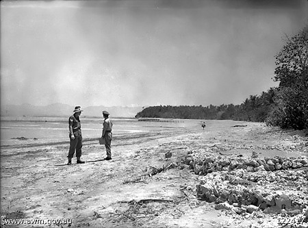 Australian War Memorial (AWM) catalog number 122417 Copyright: The AWM record for this photo states that the copyright status is 'clear'. The photo was taken in 1945. The AWM allows the use of images from its online database whose copyright has expired for non-commercial purposes only on the condition that the AWM's watermark is not removed. Higher resolution images may be ordered through the AWM (Source: email from the AWM to Nick Dowling 6 January 2006). AWM Caption: OESAPA BESAR, TIMOR. 1945-11-13. THE AUSTRALIAN TROOPS OF SPARROW FORCE LANDED ON THIS STRETCH OF BEACH ON 1941-12-12 The copyright has expired on this image. The AWM, however, requires that the AWM watermark is not removed and that permission be sought for commercial use. Higher resolution versions of this image may be ordered through the AWM Website at